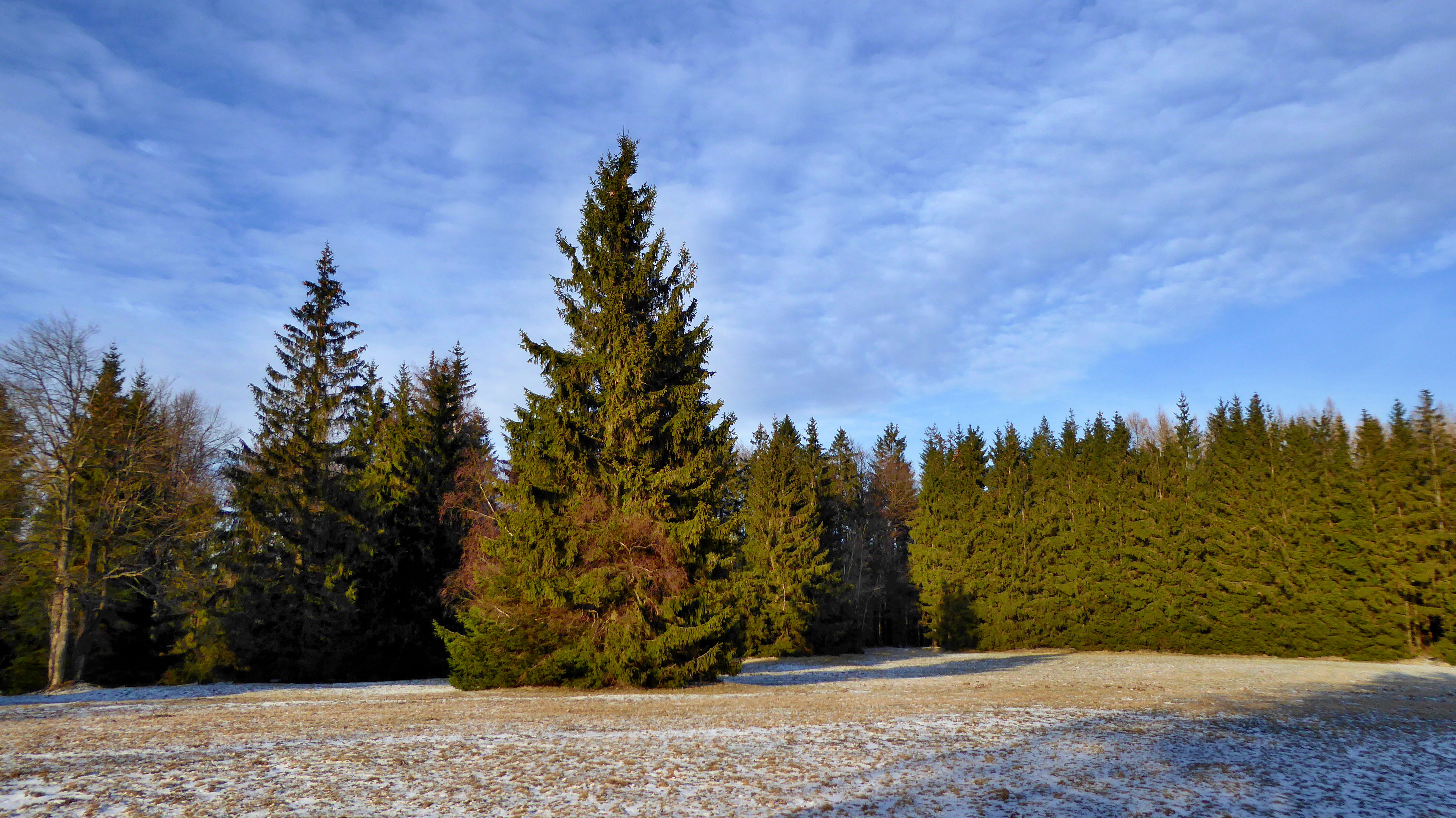 The flat top part around the trigonometrical of point with name "Karlštejn" (783,4 m asl) on the cadastral territory of Svratouch, belonging to the Pardubice Region in the Czech Republic. The top of the georelief (the highest point of the terrain) is situated at an altitude of 784 m according to the contour map in the forest, a few dozen meters from the trigonometric point (in the photo on the right). Photo-location: Czechia, Pardubice Region, the village of "Svratouch", meadows in the top part of the hill "Karlštejn", azimuth 45°.